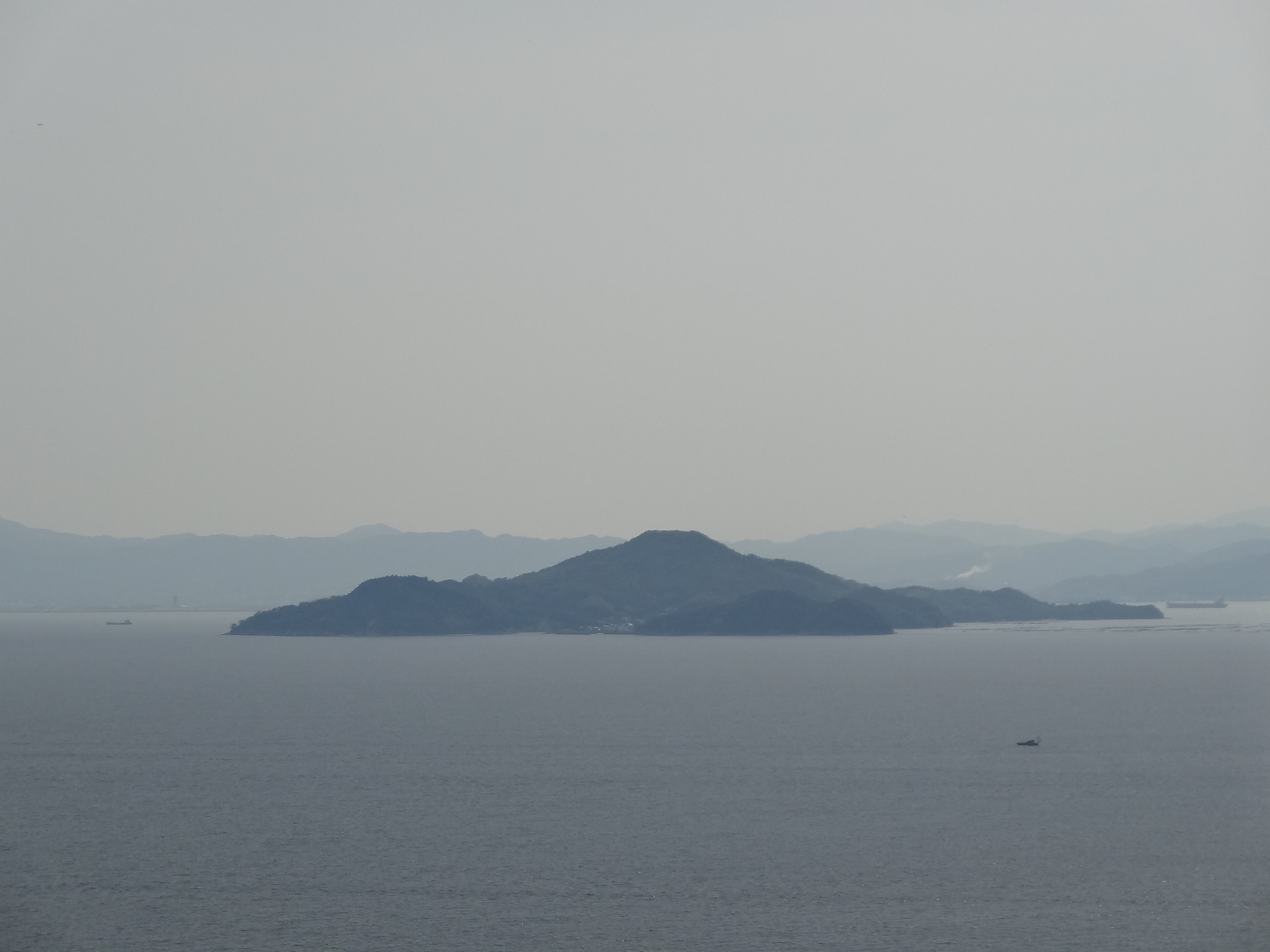 "Atata Island" (Otake City, Hiroshima Prefecture, Japan)